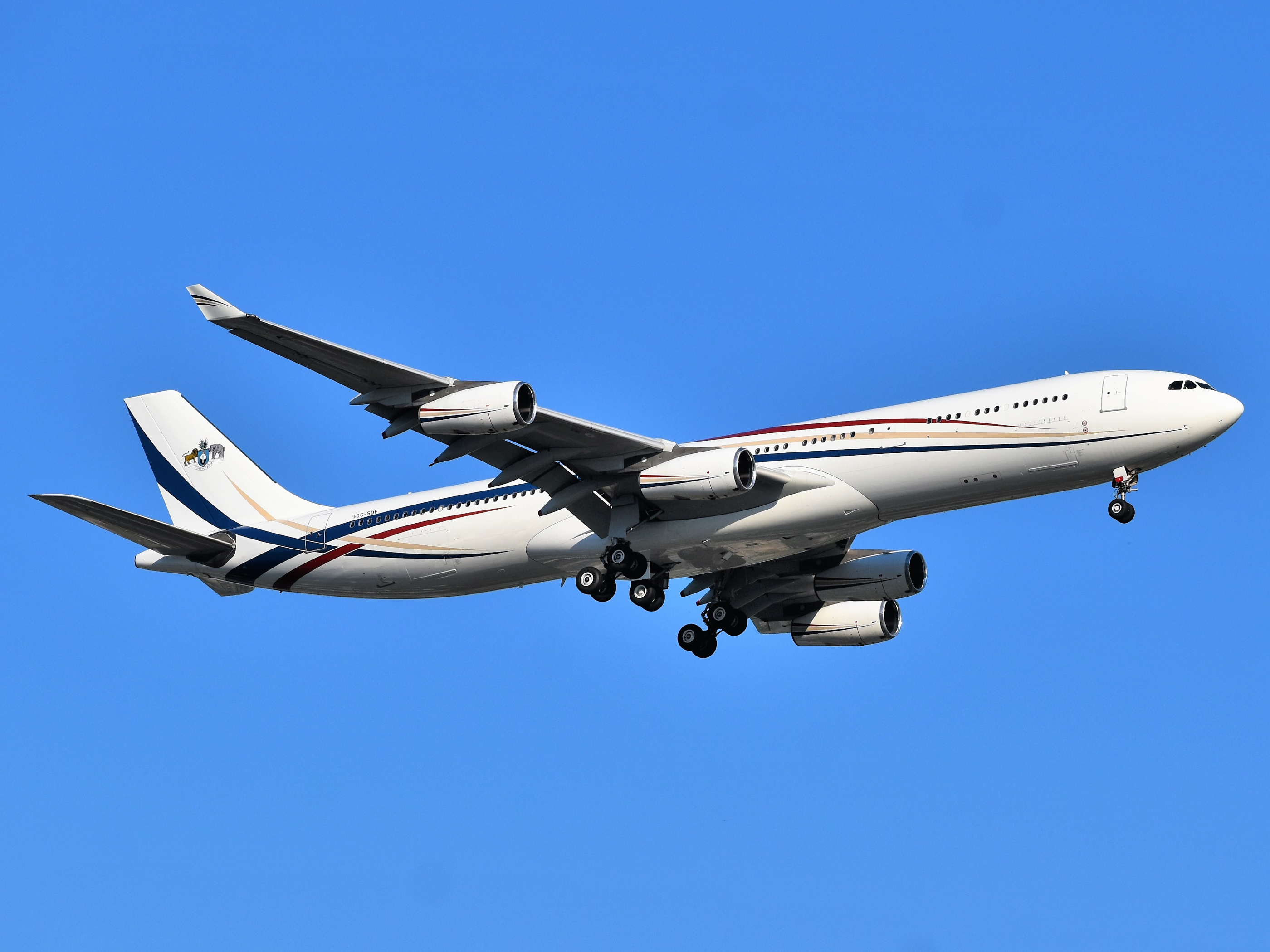 Flying over 225 Street in Springfield Gardens, the Kingdom of Eswatini's Airbus A340-300 is on final approach to Runway 22R at JFK Airport for the 2019 United Nations' General Assembly meetings.